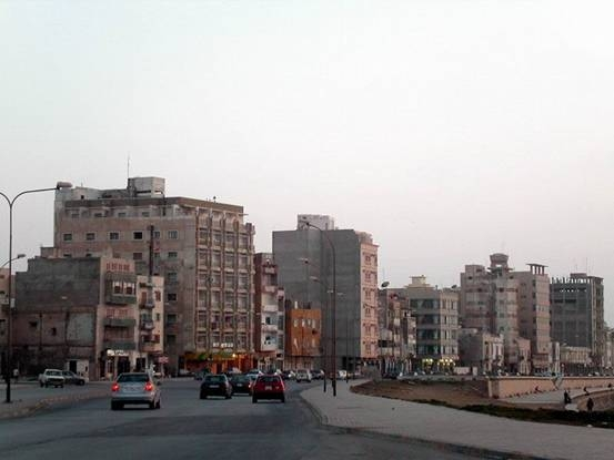 Khreibeesh, Benghazi.